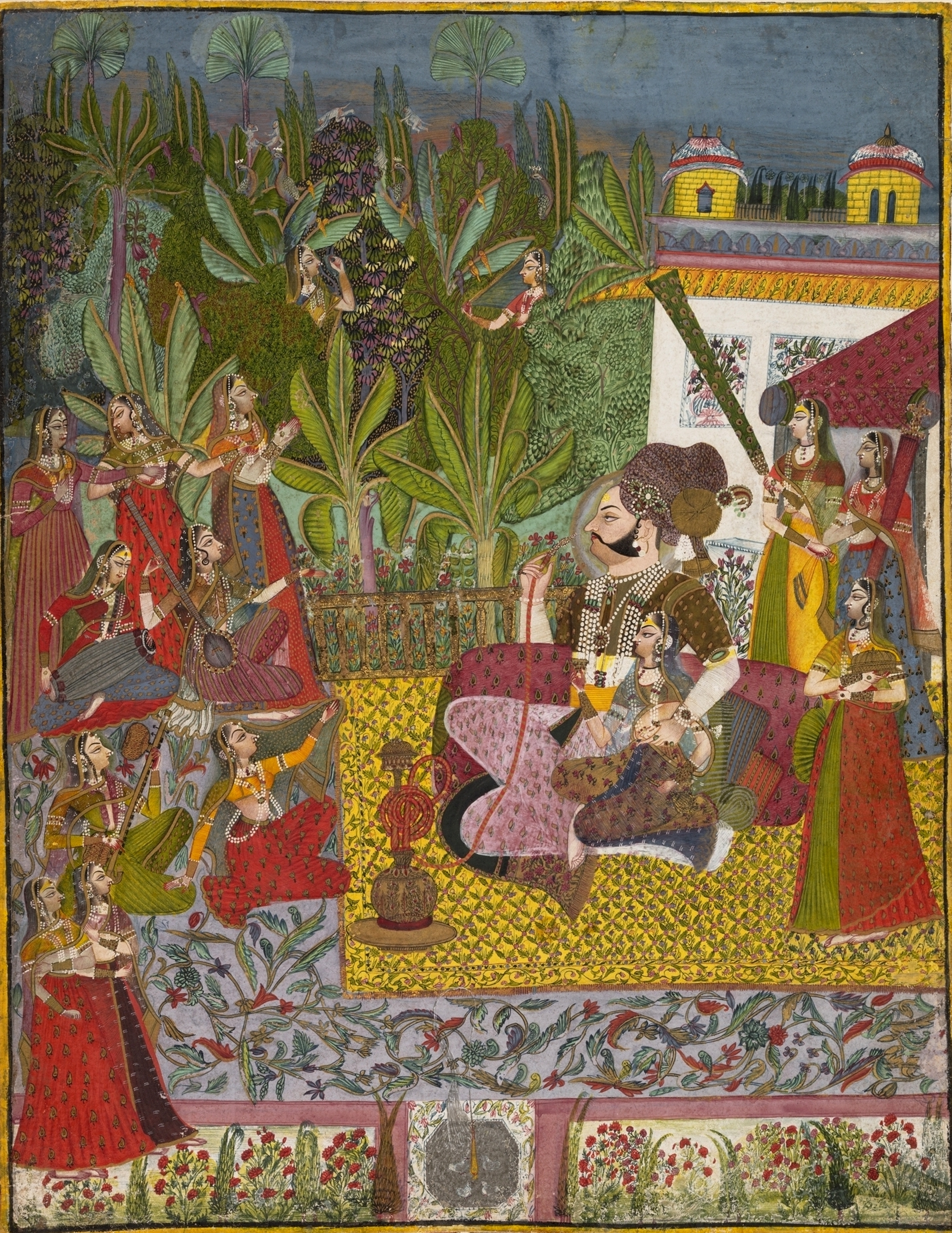 Maharaja Vijay Singh in His Harem. Jodhpur, ca. 1770 Metropolitan museum